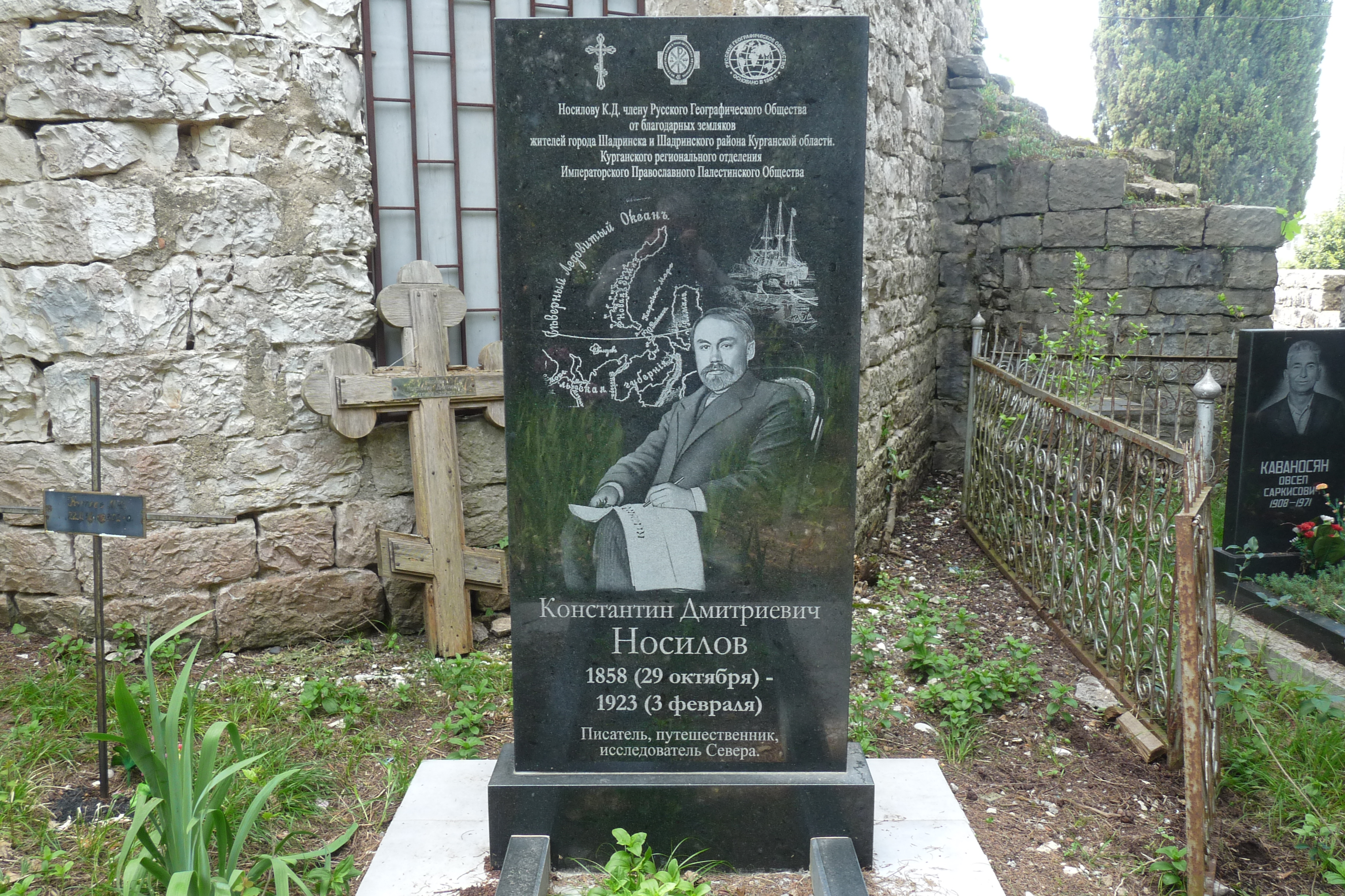 Памятник К. Д. Носилову на кладбище пгт. Цандрипш